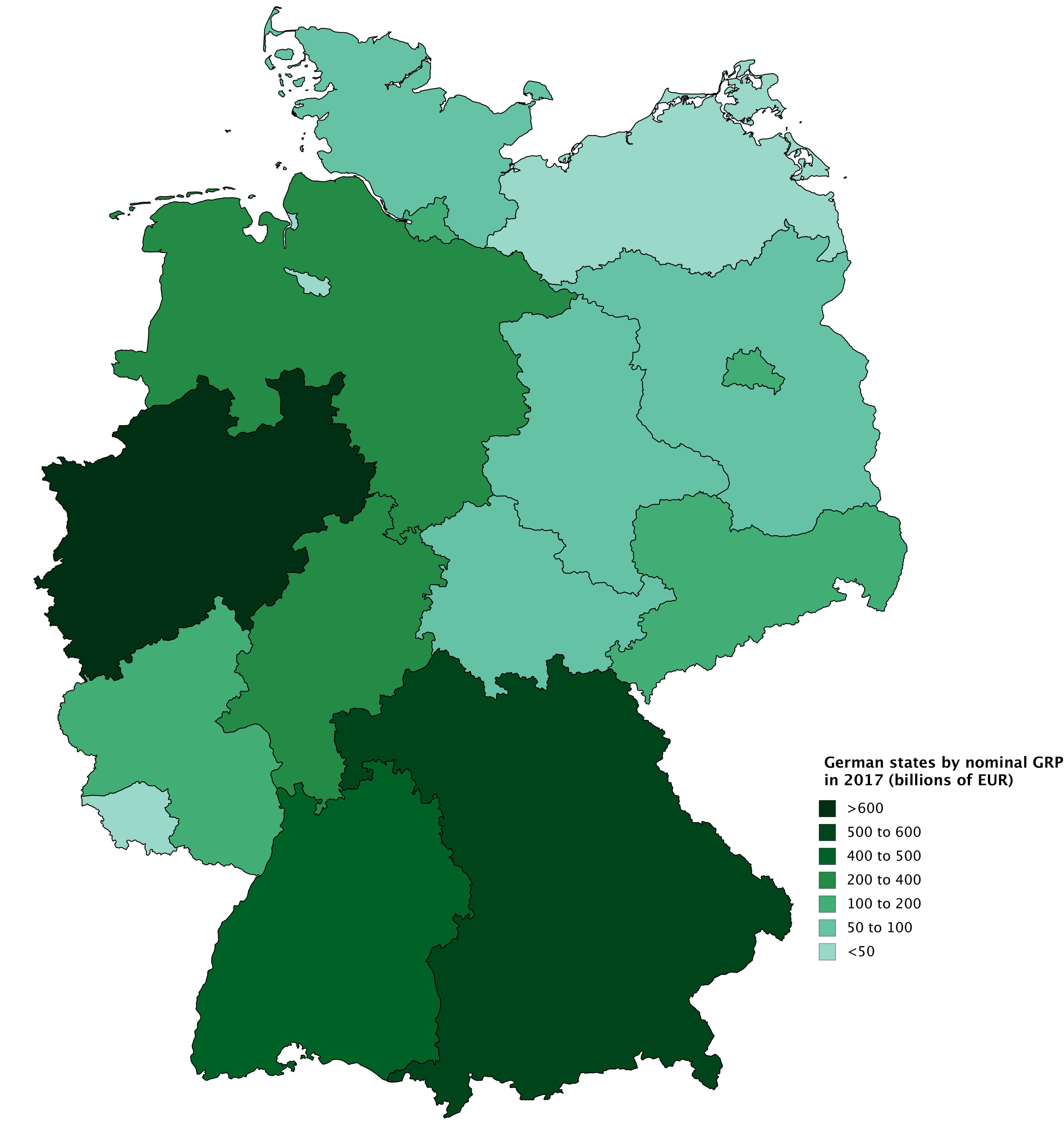 A choropleth map showing the states (including city-states) of Germany by nominal gross regional product (GRP) in 2017, based on data from the Federal Statistical Office of Germany.